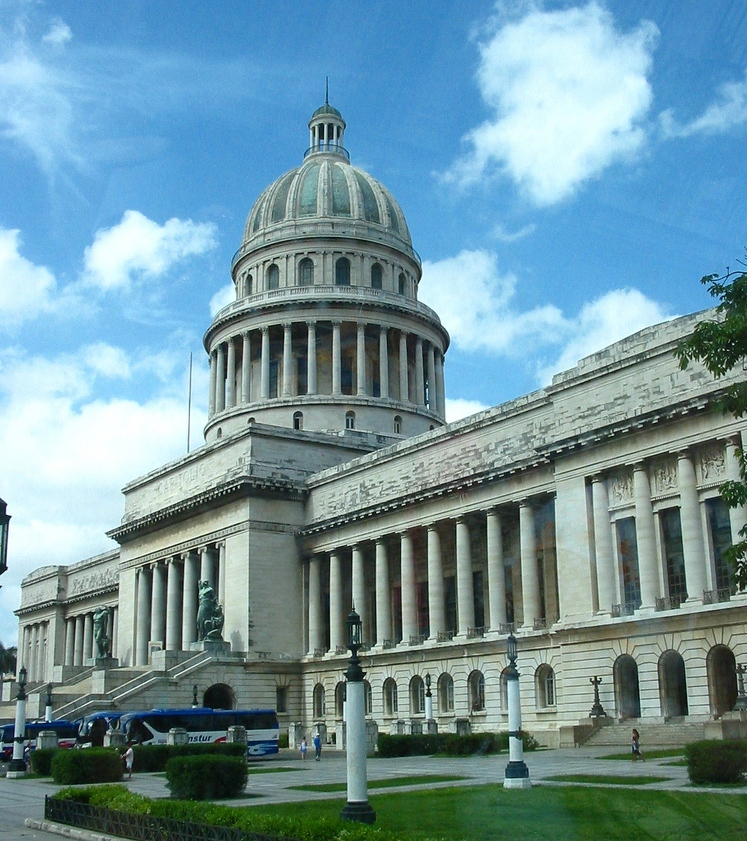 Capitol Building, Havana